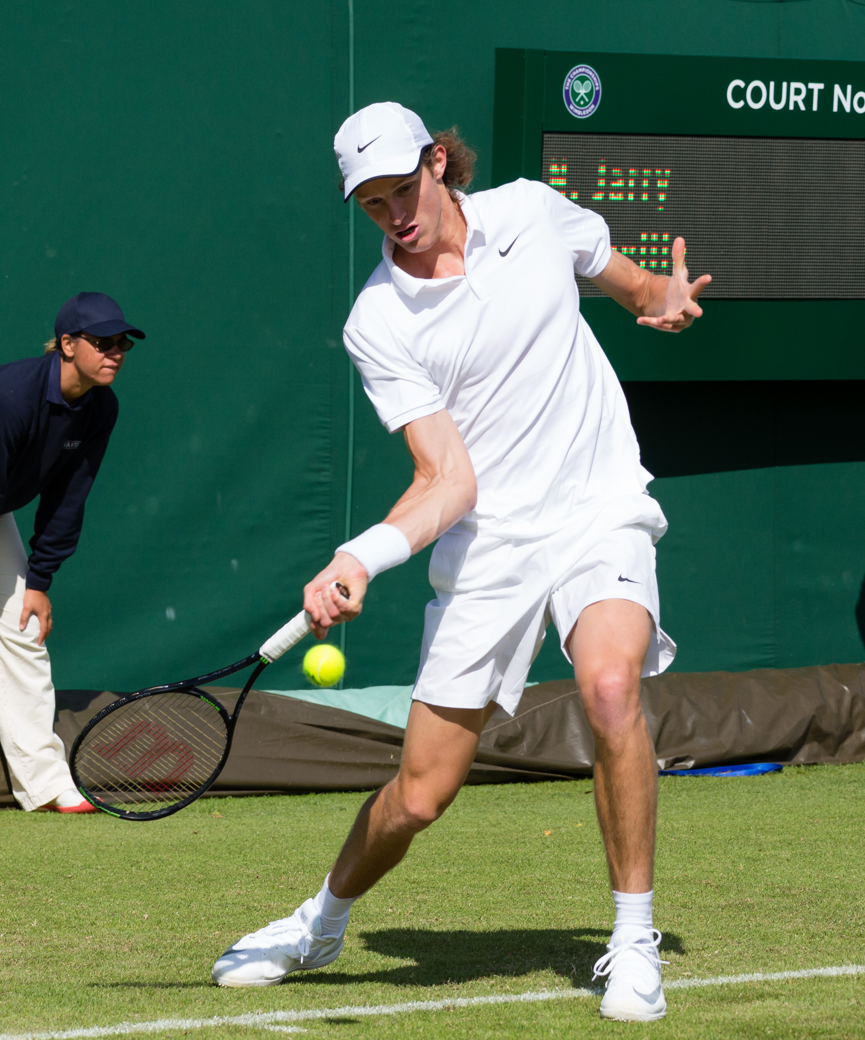 Nicolás Jarry competing in the first round of the 2015 Wimbledon Qualifying Tournament at the Bank of England Sports Grounds in Roehampton, England. The winners of three rounds of competition qualify for the main draw of Wimbledon the following week.